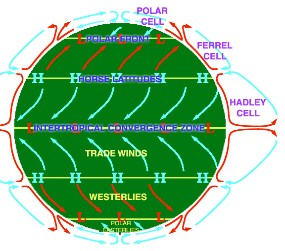 atmospheric circulation diagram, showing the Hadley cell, the Ferrel cell, the Polar cell, and the various upwelling and subsidence zones between them.